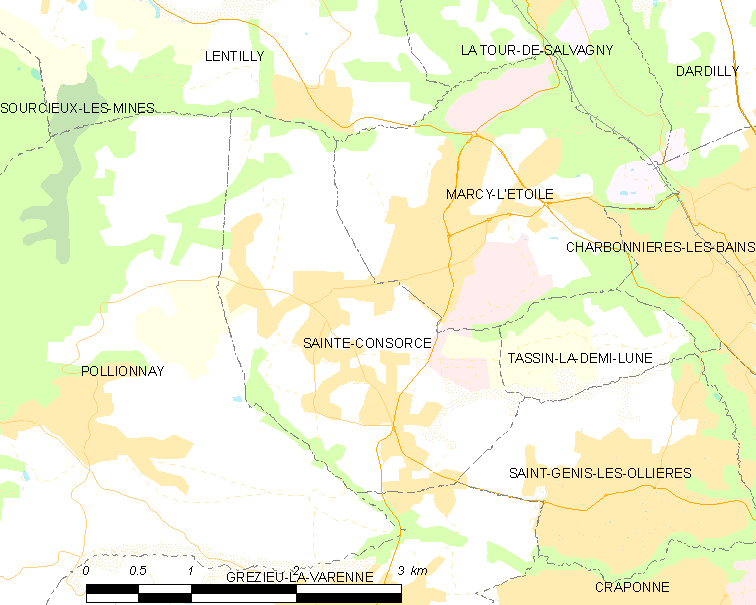 Map of French municipality